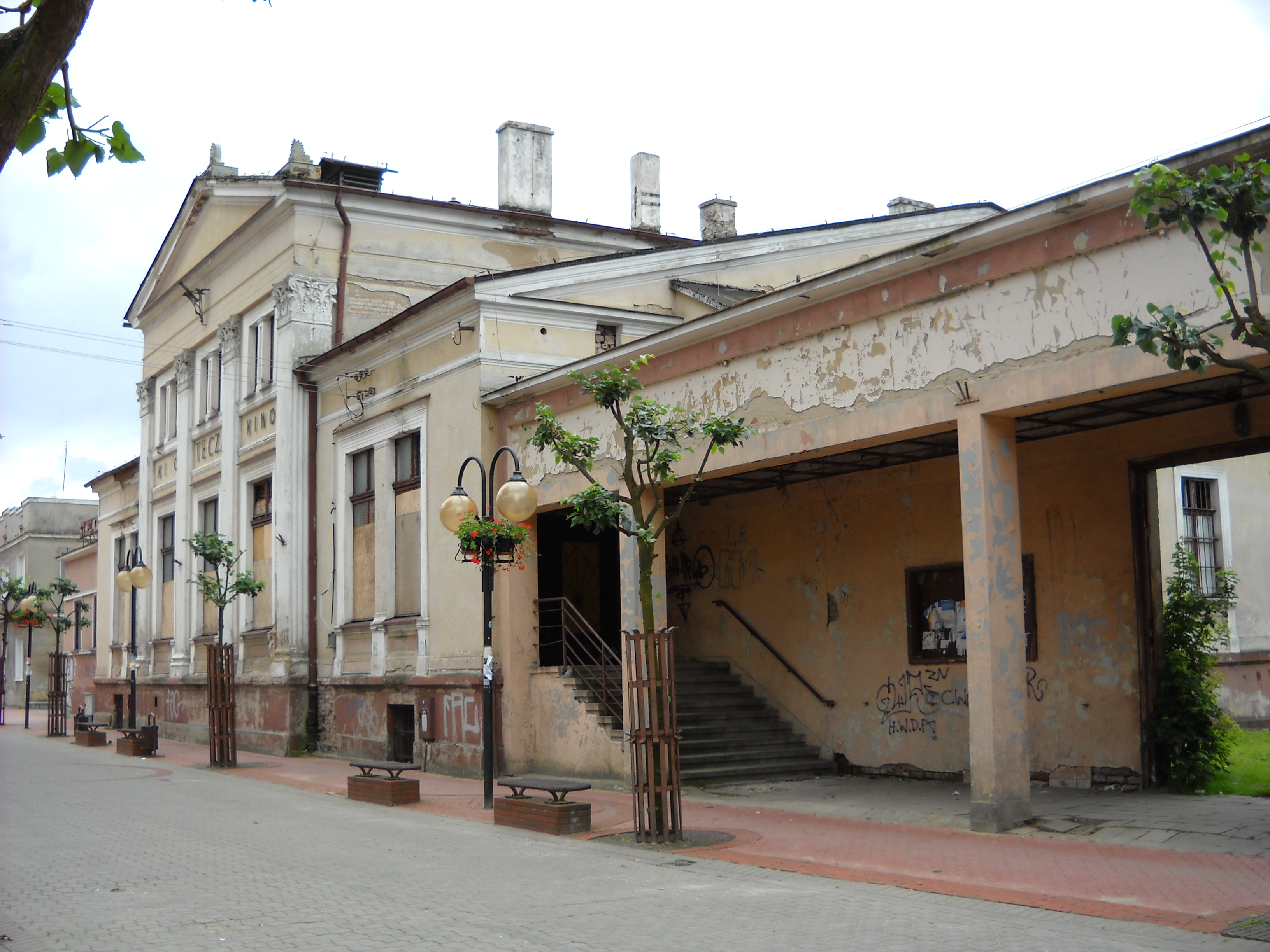 An abandoned cinema building in the centre of Kwidzyn